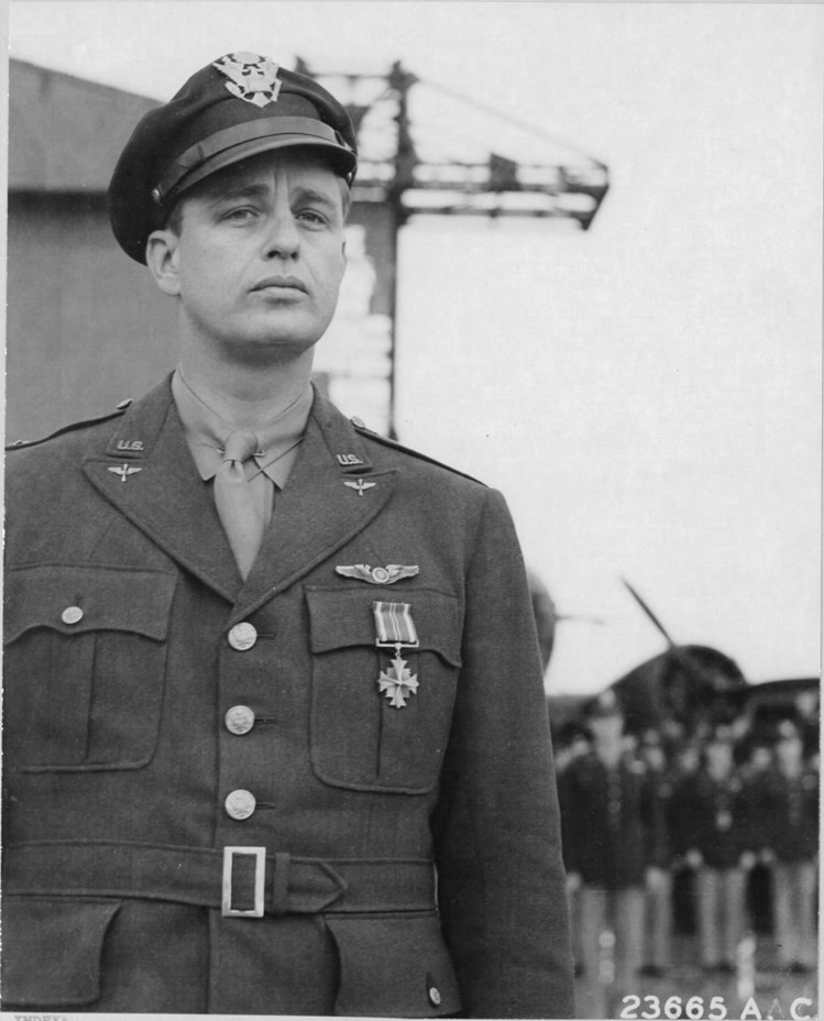 Lt. Col. Elliott Roosevelt receives the Distinguished Flying Cross in Algiers for outstanding services performed by his Group in the African Campaign (B-17E 41-9045 stands in the background)